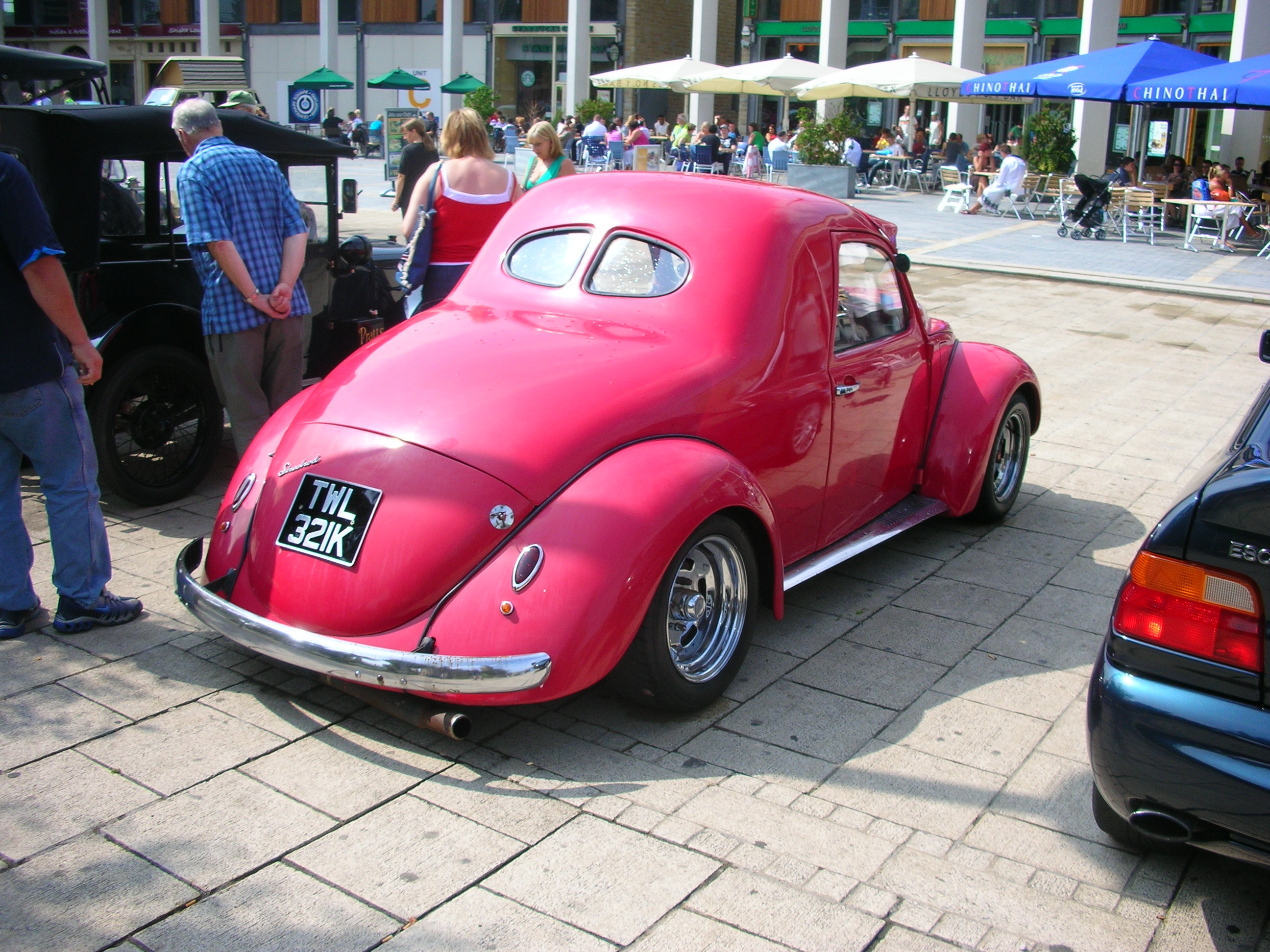 1971 VW Beetle / Willys Coupe Replica / Model: Super Coupé oder Wizard of Rods Super Coupé